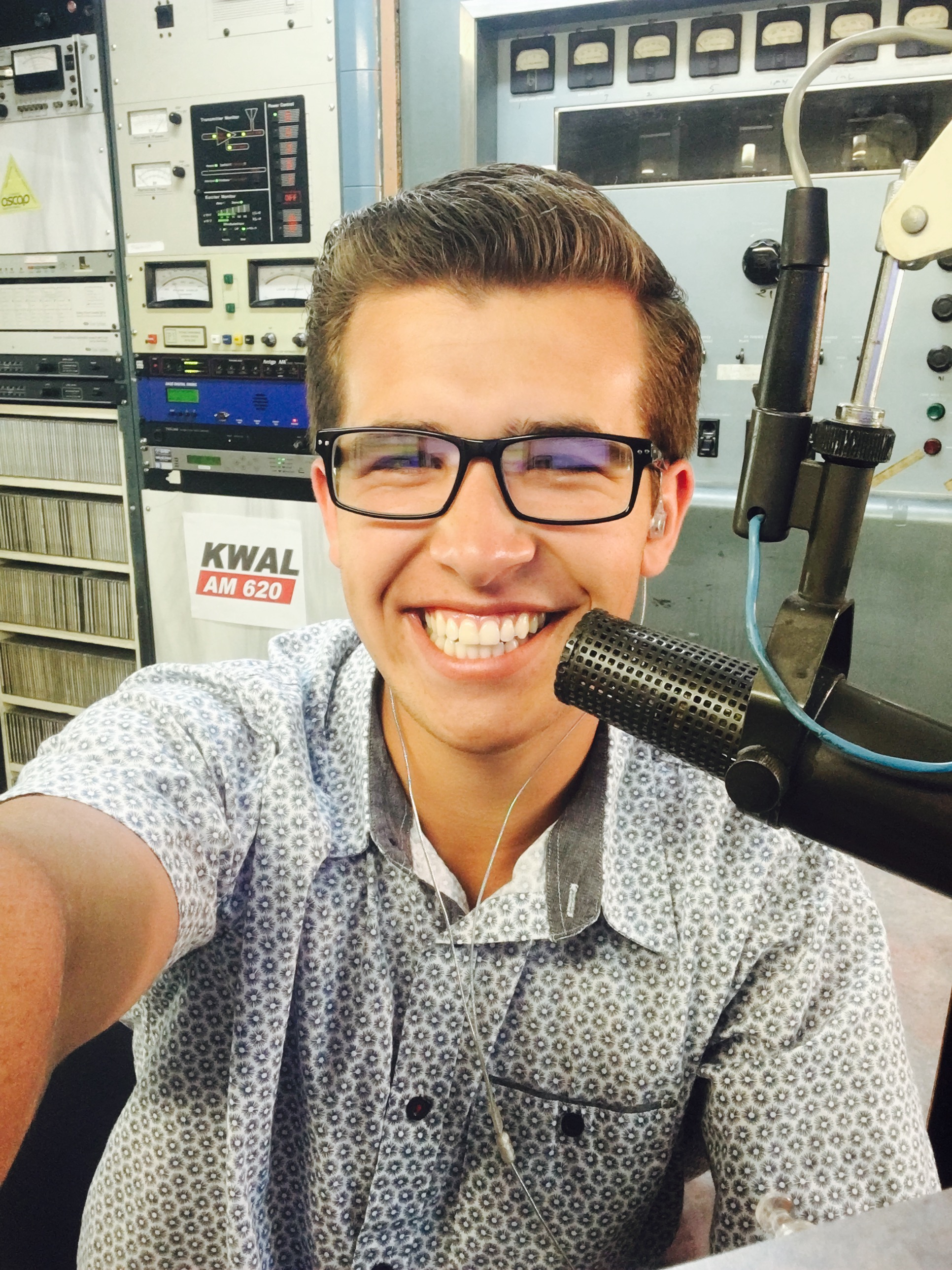 John Webb anchors newscast LIVE on KWAL.